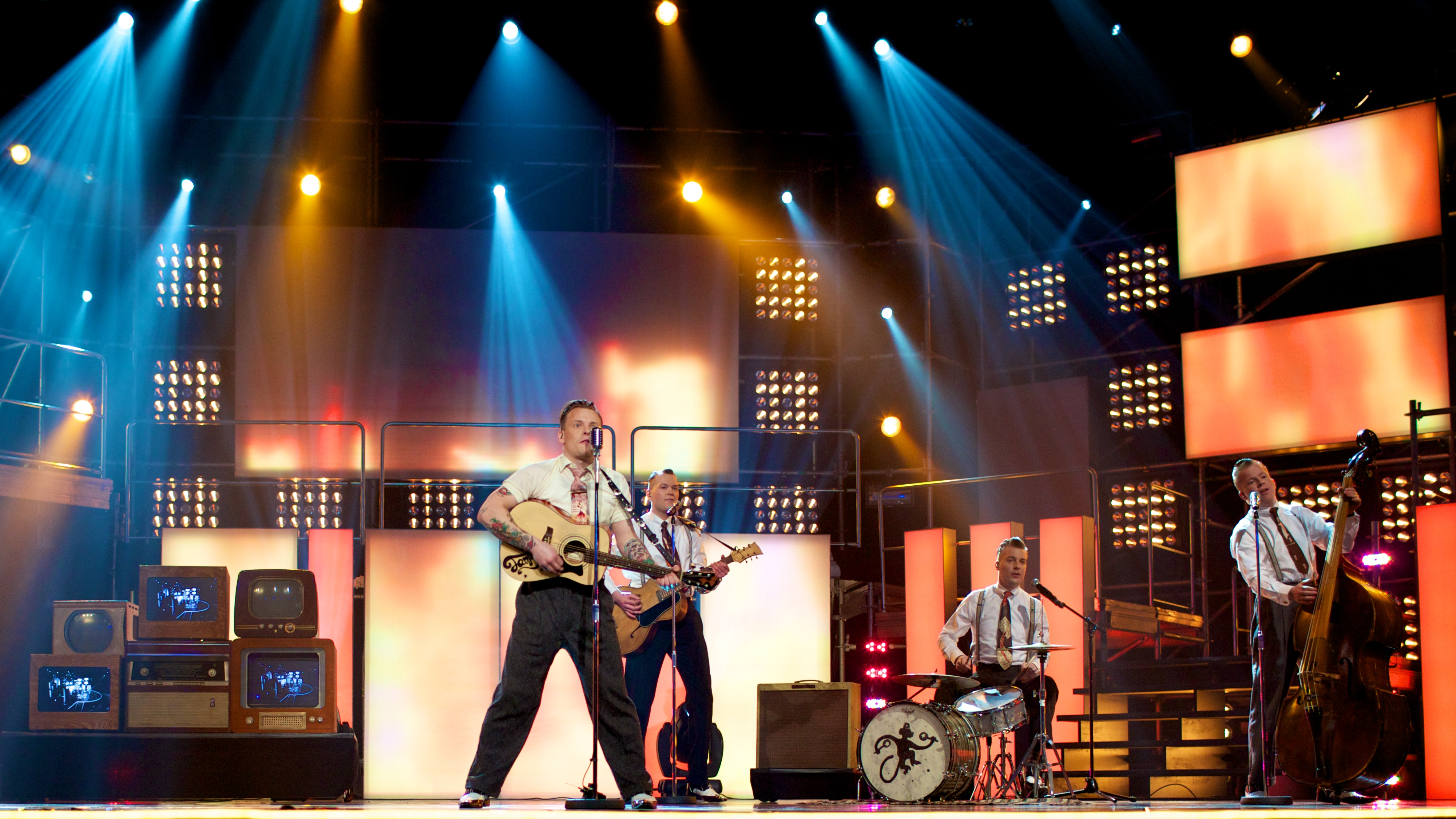 Best viewed large – click on the image!